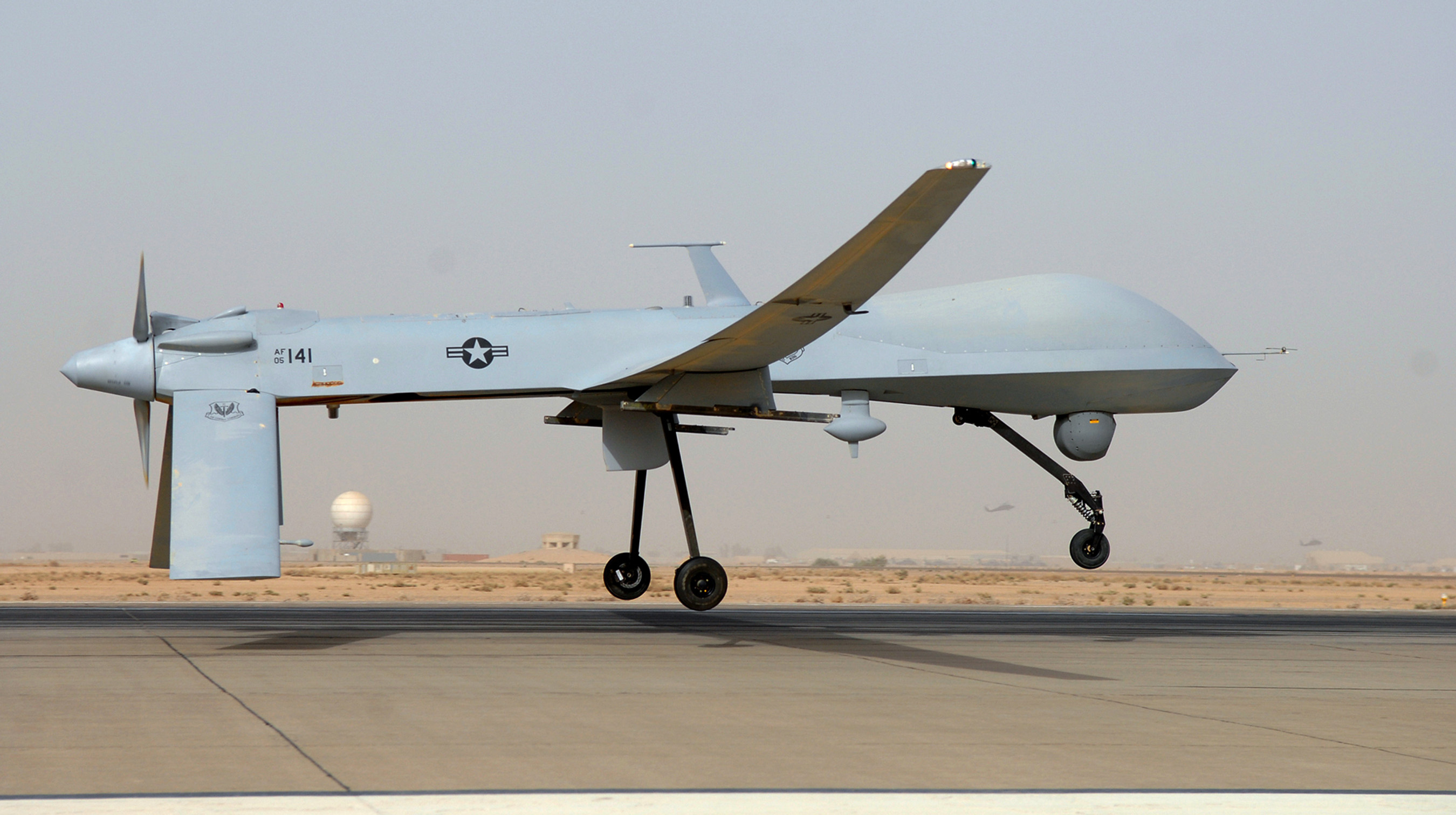 BALAD AIR BASE, Iraq -- A MQ-1B Predator from the 46th Expeditionary Reconnaissance Squadron takes off in support of Operation Iraqi Freedom here, June 12. Since January 2008, more than 1,000 Predator sorties were flown out of Balad, lasting more than 20,000 hours. The MQ-1 Predator carries the Multi-spectral Targeting System with inherent AGM-114 Hellfire missile targeting capability and integrates electro-optical, infrared, laser designator and laser illuminator into a single sensor package.